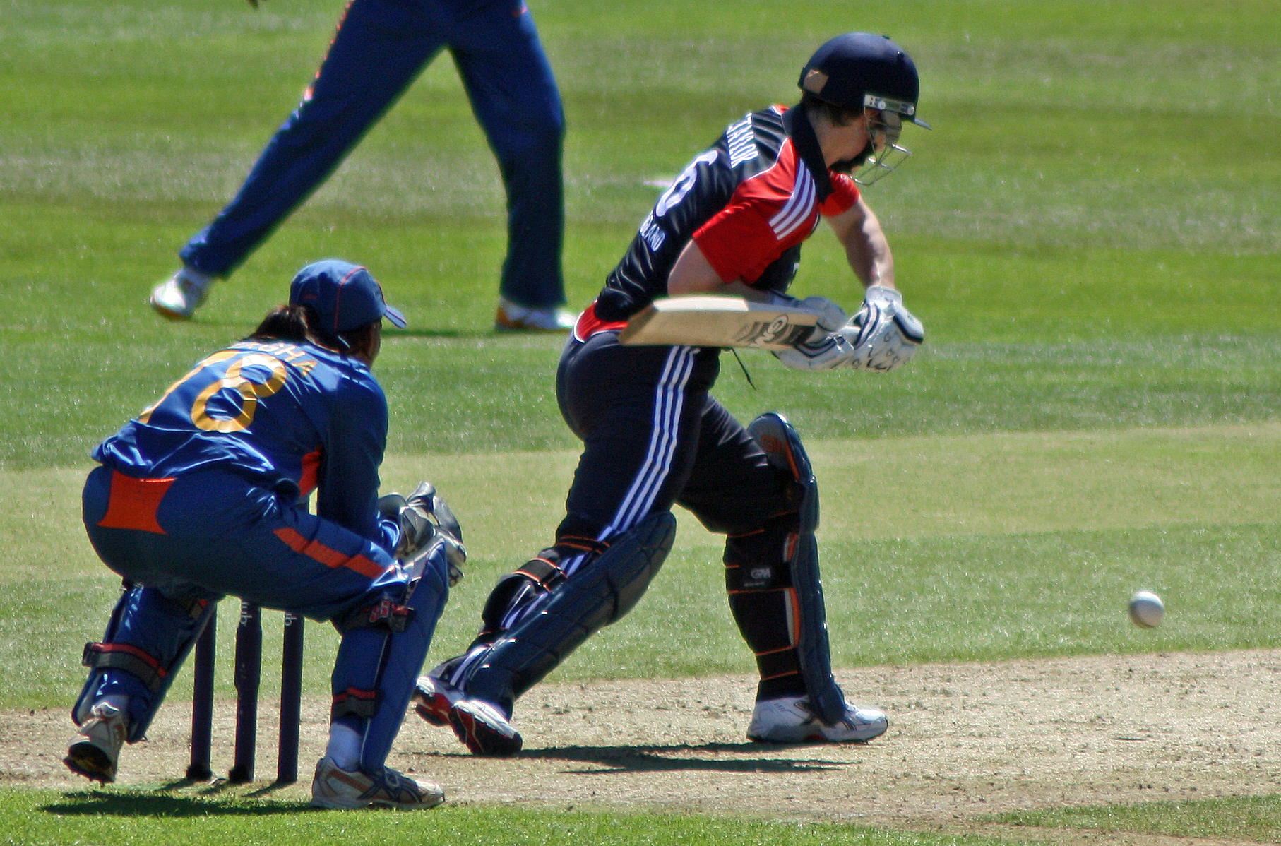 England batsman Claire Taylor, batting against India at the County Ground, Taunton.